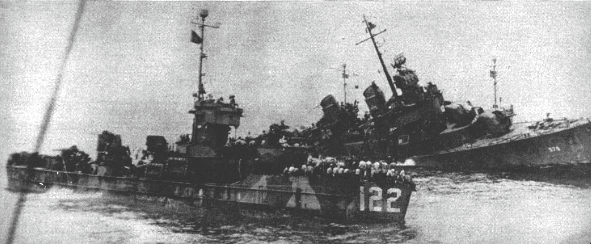 The U.S. Navy destroyer USS William D. Porter (DD-579) sinking after she was near-missed by a Kamikaze suicide aircraft off Okinawa, 10 June 1945. USS LCS-122 is standing by.